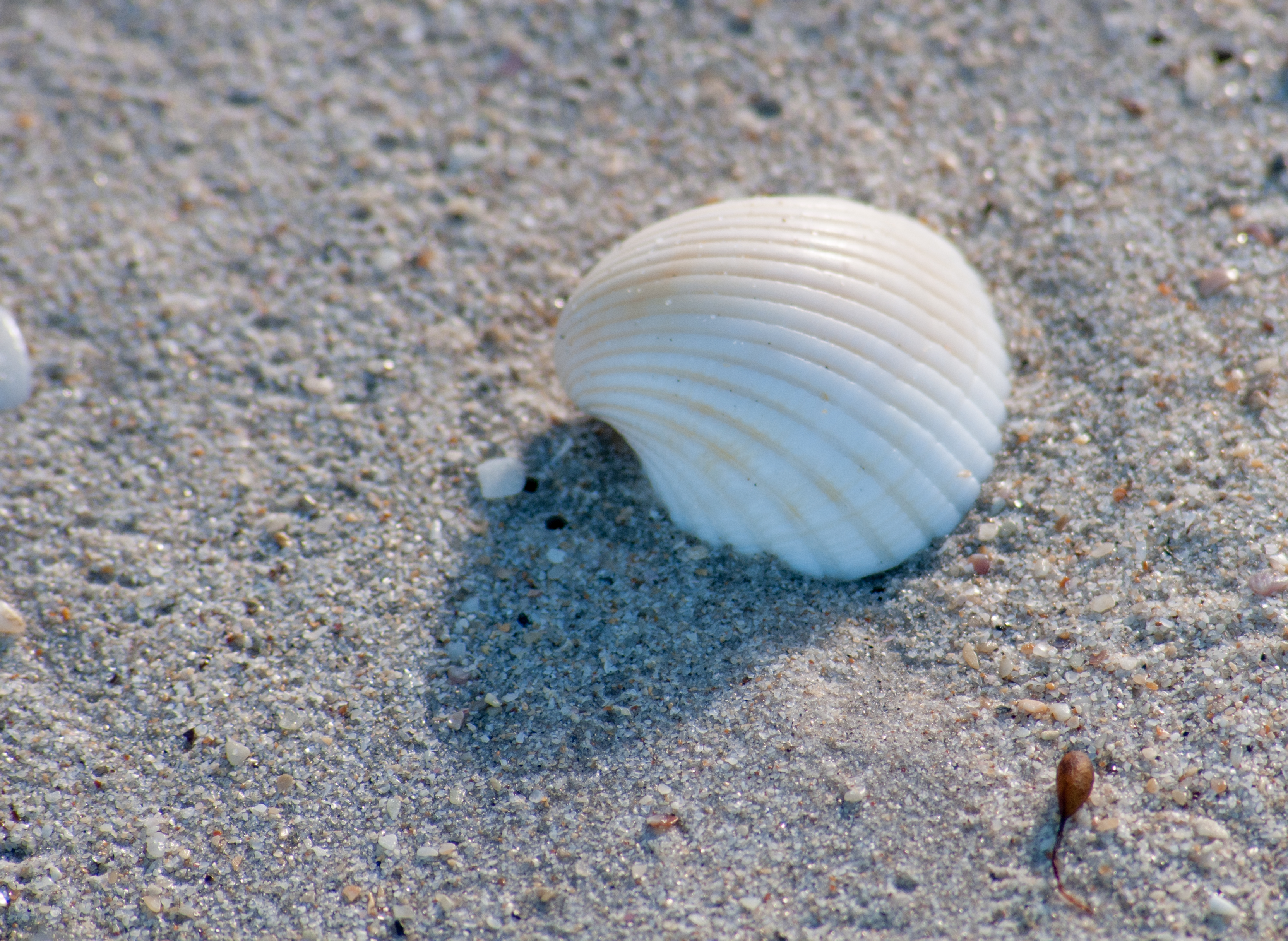 seashell of Anadara